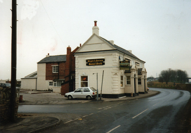 The Wagon & Horses Public House